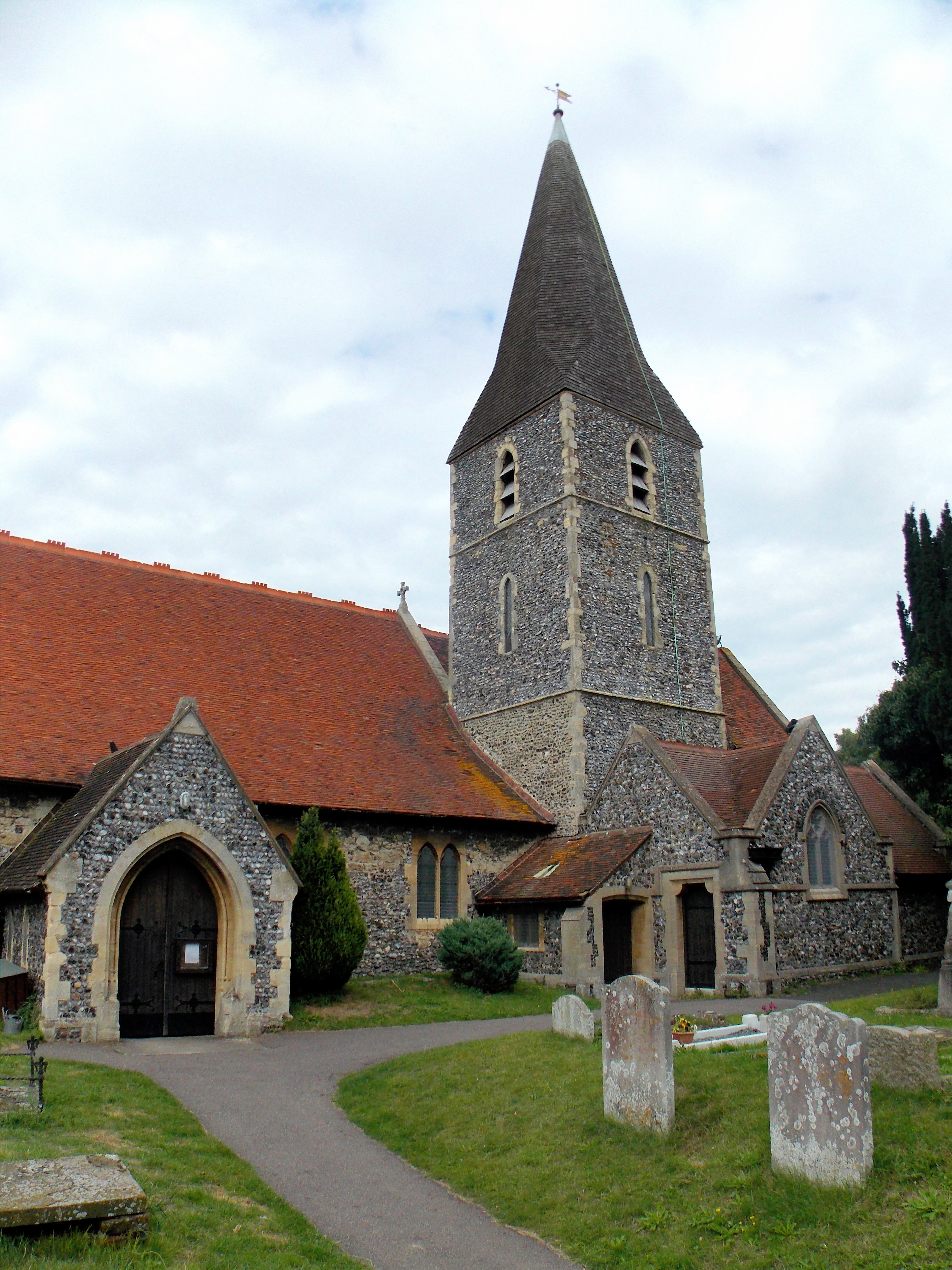 Birchington All Saints Church From the southwest